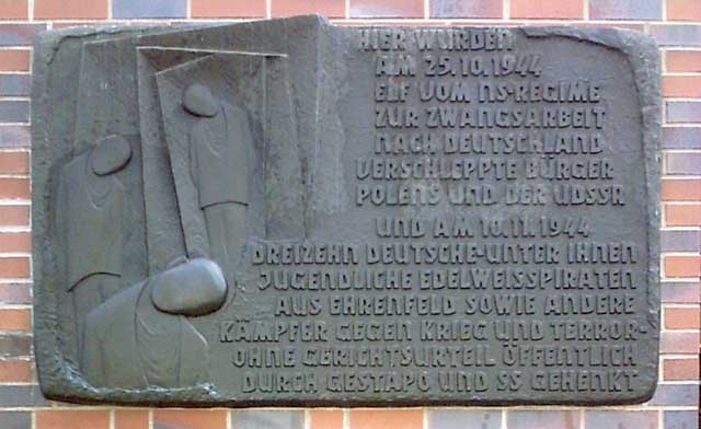 Memorial plaque Köln-Ehrenfeld (Cologne-Ehrenfeld) Translation: This marks the site where, on October 25, 1944, eleven citizens of Poland and the USSR, kidnapped by the Nazi regime for forced labor in Germany and on November 10, 1944, thirteen Germans, including young Edelweiss Pirates from Ehrenfeld and other fighters against war and terror, were publicly hanged, without trial, by the Gestapo and SS.